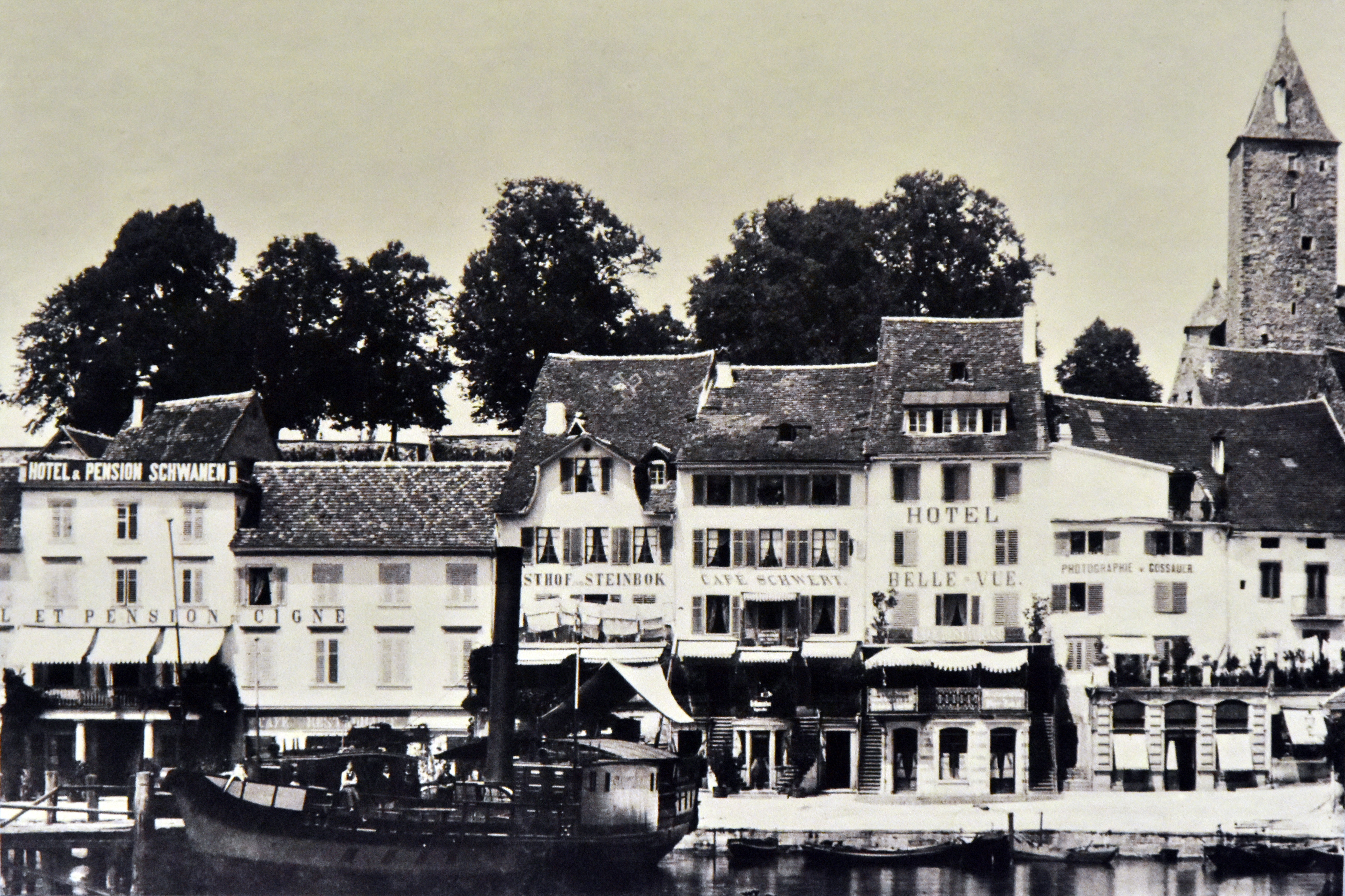 Collection of the Stadtmuseum) in Rapperswil (Switzerland): Ausstellung Der Zeit voraus. Drei Frauen auf eigenen Wegen. Marianne Ehrmann-Brentano Schriftstellerin und Journalistin (1755–1795) ++ Alwina Gossauer Fotografin und Geschäftsfrau (1841–1926) ++ Martha Burkhard Globetrotterin und Malerin (1874–1956) : Alwina Gossauer, Hotels an der Schifflände in Rapperswil um 1880 mit ihrem Atelier und Laden im Hotel 'Belle-Vue'.